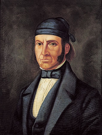 El chispero de la revolucion en la nueva granada.